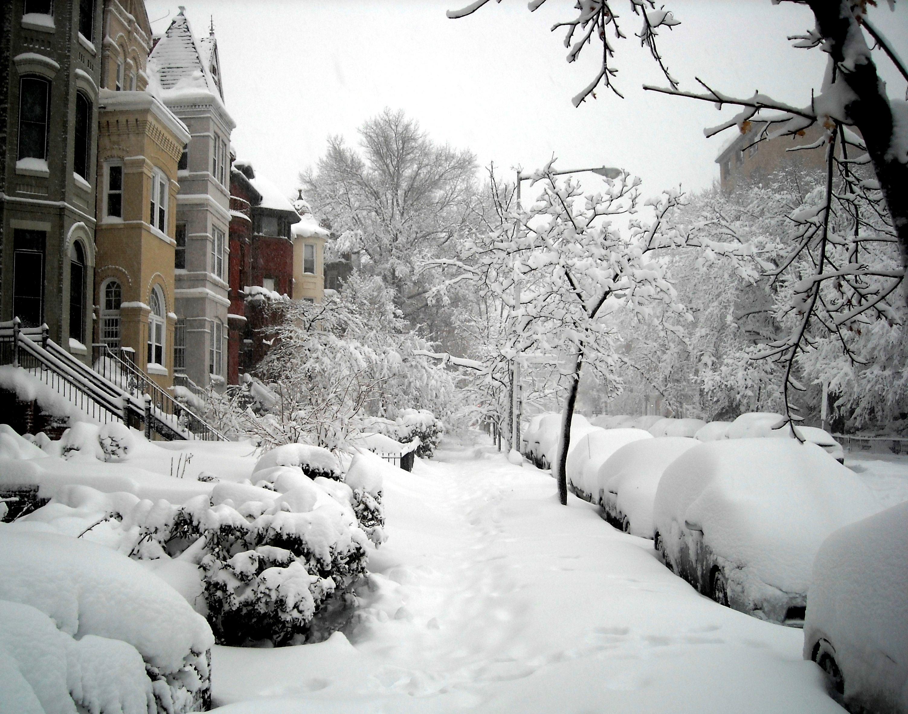 Snow falling on the 1600 block of 19th Street, N.W., in the Dupont Circle neighborhood of Washington, D.C., during the North American blizzard of 2010.